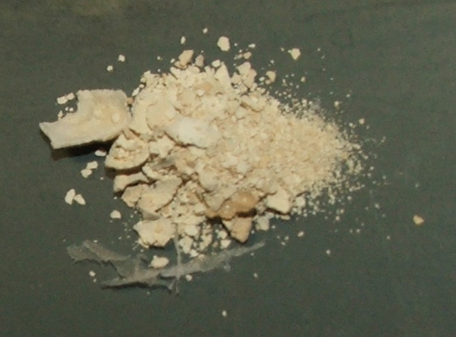 Tin(II) oxide, the pale tan hydrated form